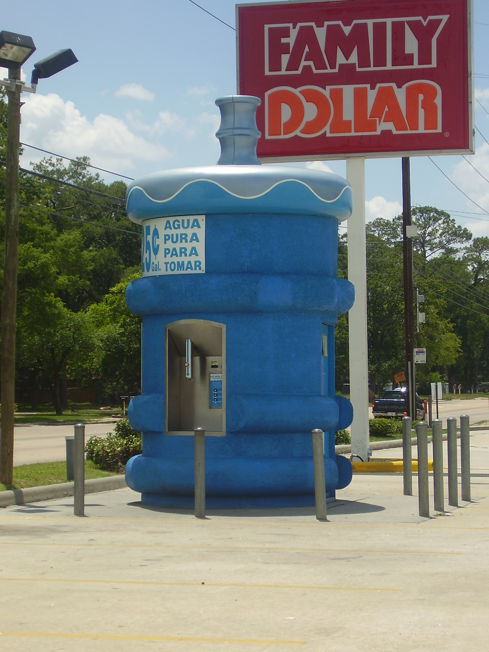 Drinking water vending machine, East Aldine, TX